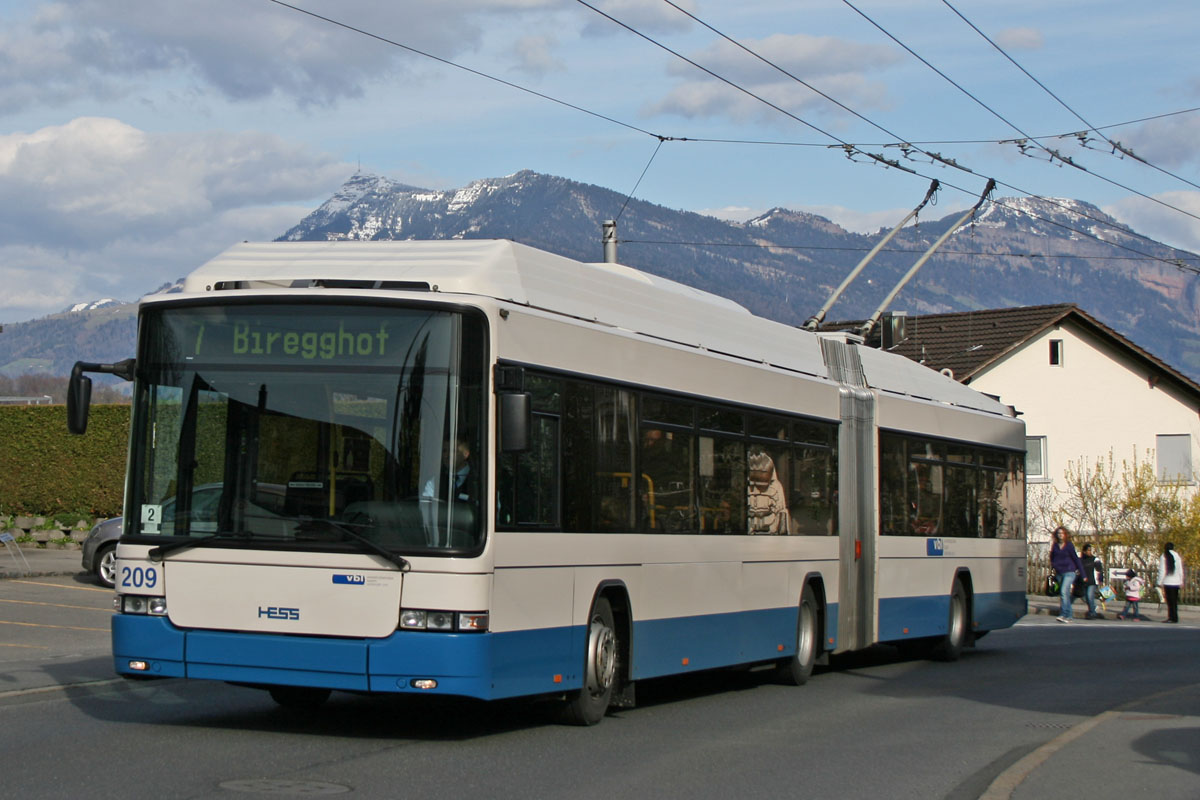 Hess/Vossloh-Kiepe Swisstrolley 3 No 209 of vbl at Bodenhofterrasse in Lucerne